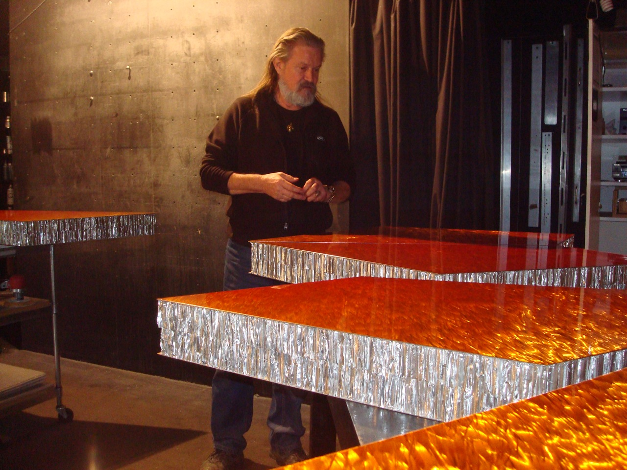 Andreas Nottebohm completing metal sculpture at his Black Hole Studio.